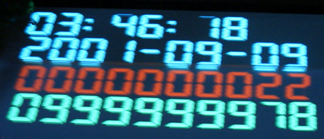 The 1000000000 seconds since epoch was celebrated at a party held by DKUUG in Copenhagen, Denmark 2001-09-09 03:46:40